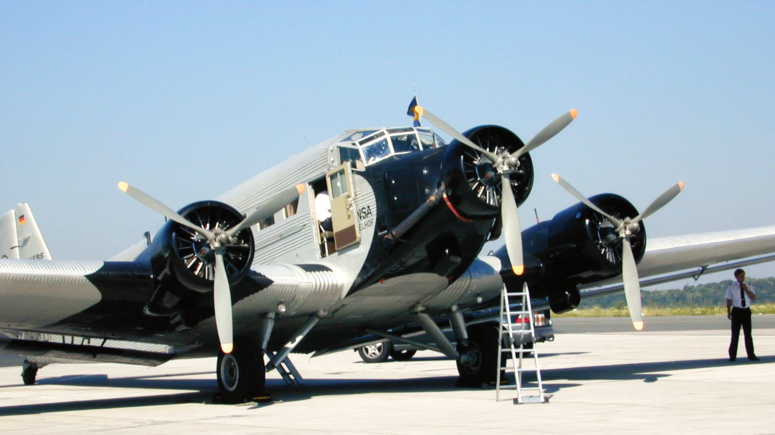 Lufthansa Ju 52/3m D-AQUI "Tempelhof" at Dortmund airport